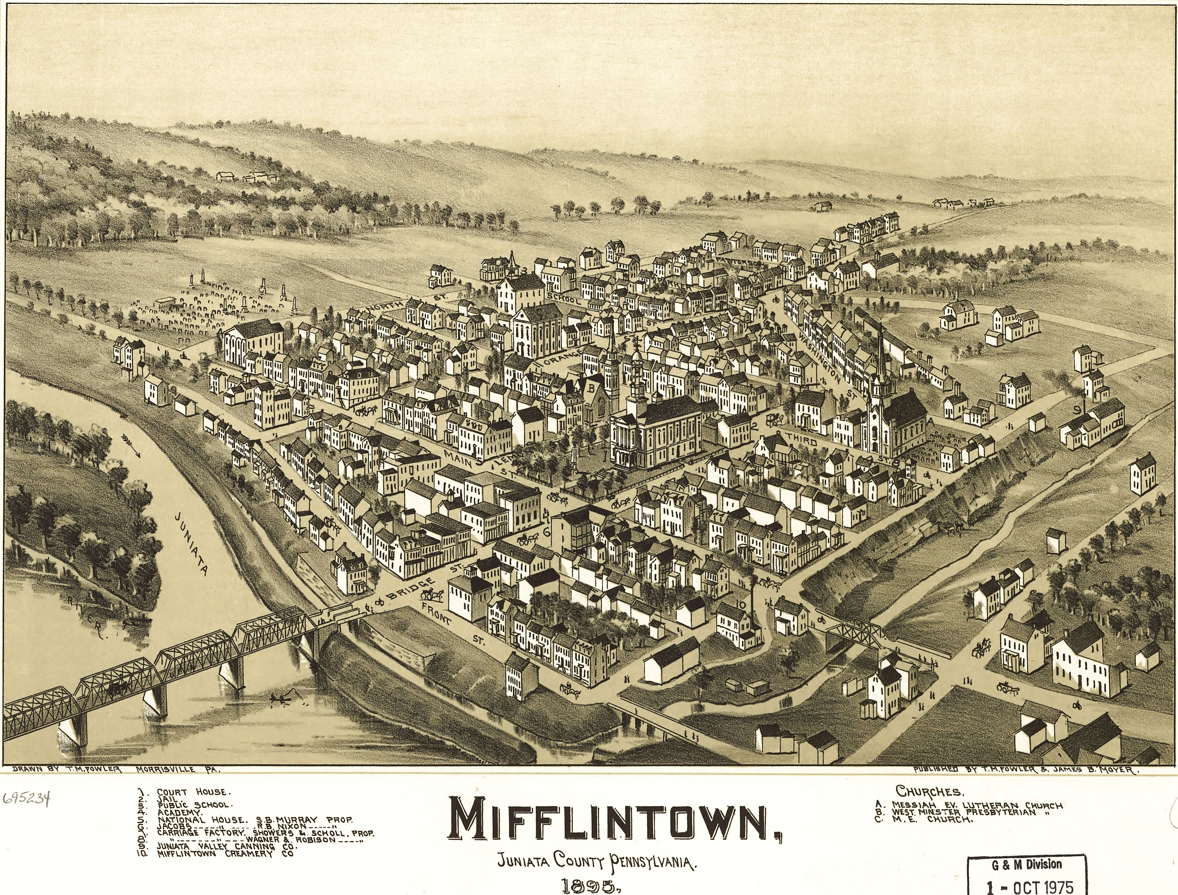 A birdseye view of Mifflintown, Pennsylvania from 1895. Perspective map; not drawn to scale.